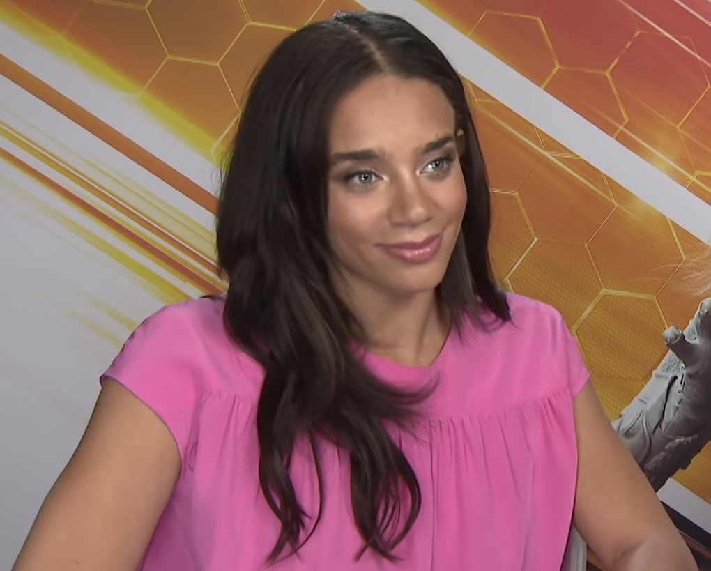 Hannah John-Kamen at an MTV International interview in August 2018